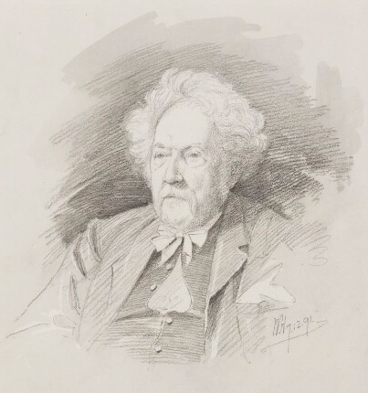 Portrait of Henry George Hine